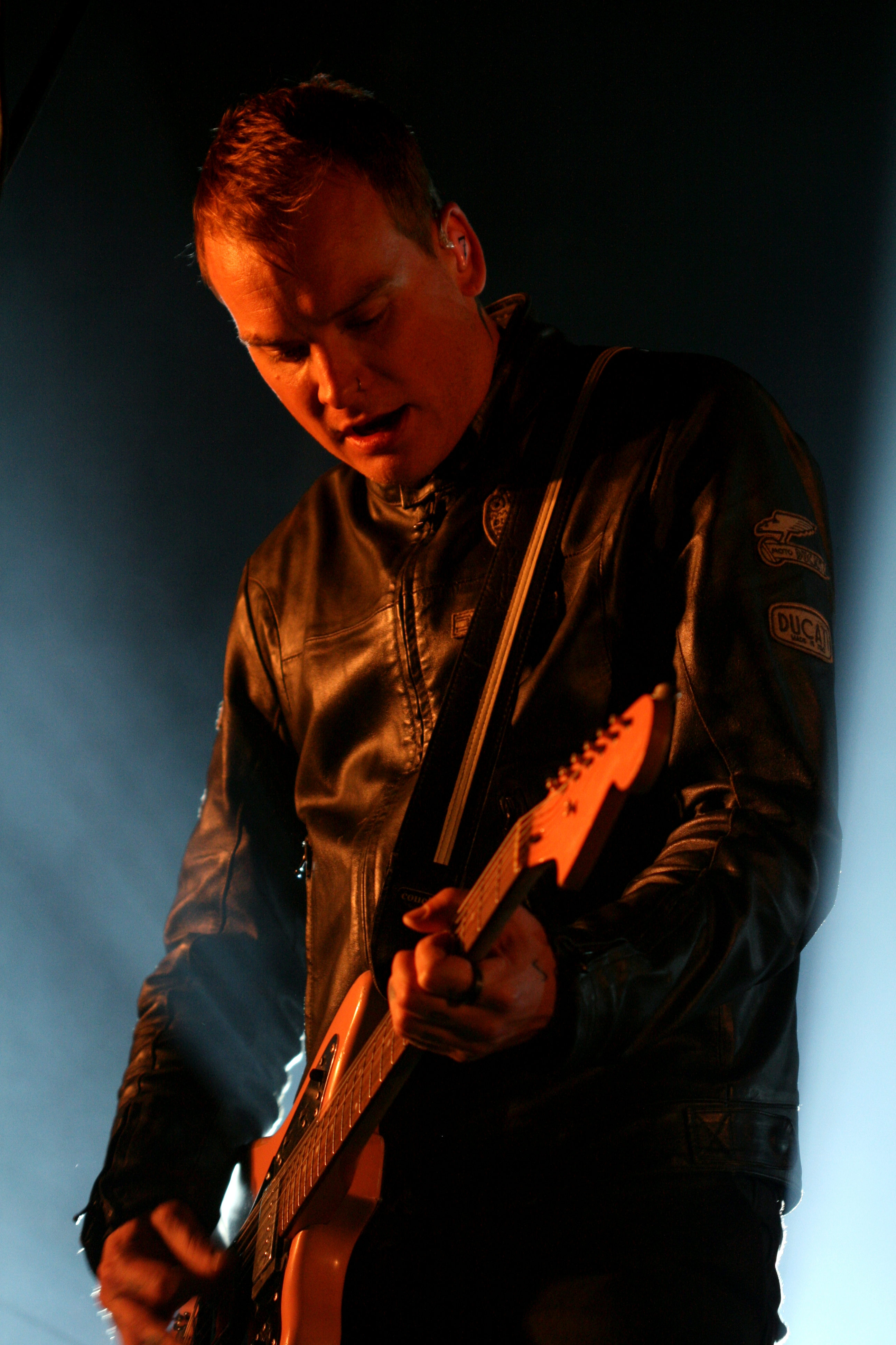 Matt Skiba, singer and guitarist of Alkaline Trio, on the "Sounds For Nature" Stage of the Taubertal Festival 2013. Festivalsommer This photo was created with the support of donations to Wikimedia Deutschland in the context of the CPB project "Festival Summer".